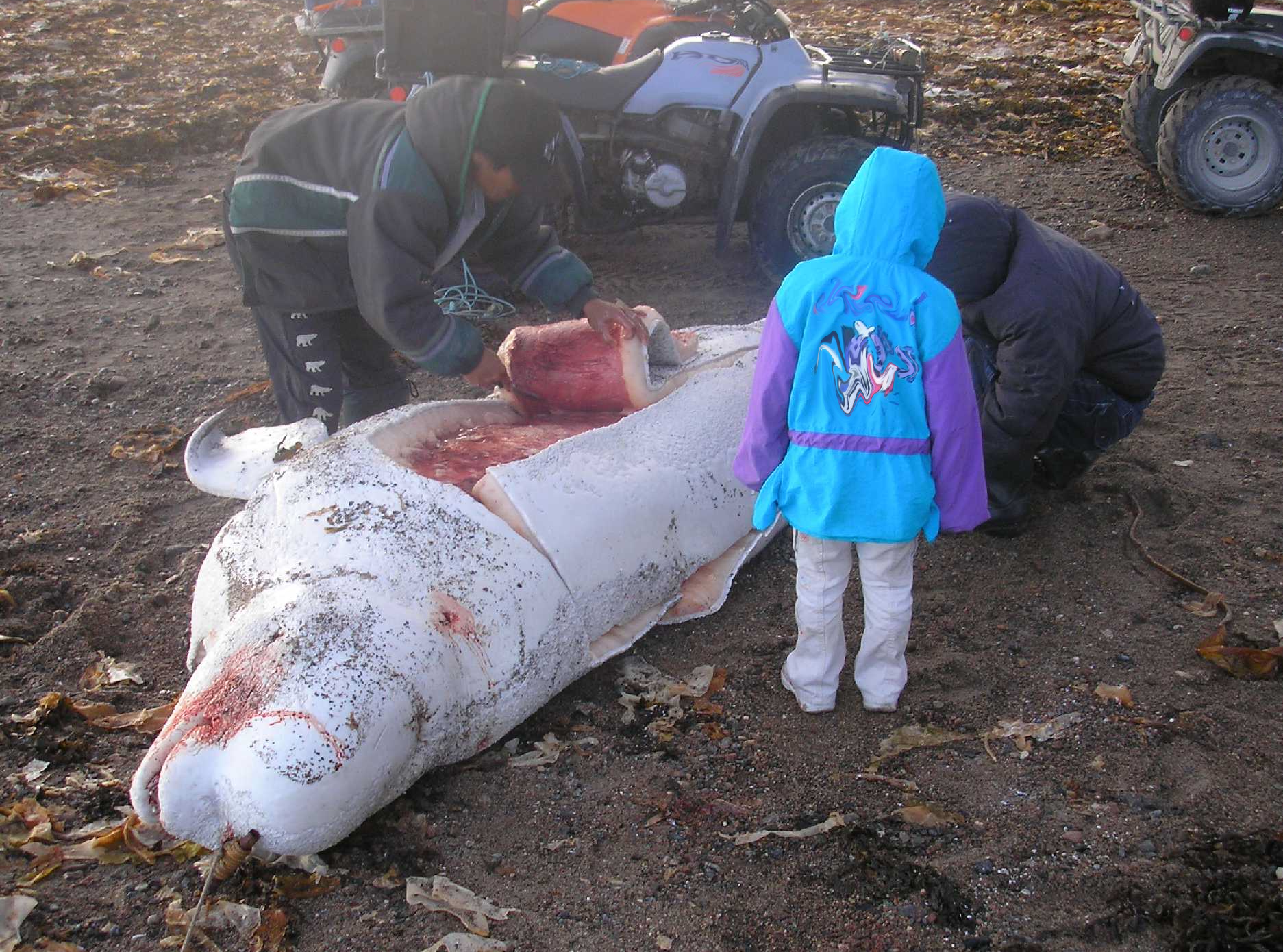 Inuit subsistence whaling on Hudson Bay.